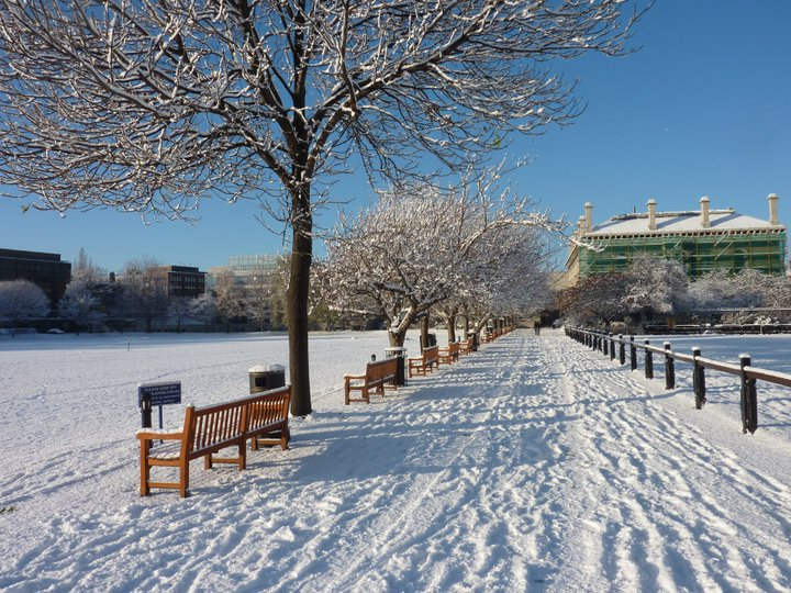 A snowy Trinity College Dublin. Path leading towards Berkeley Library. Cricket pitch on left hand side, rugby pitch on right. Museum building visible with scaffolding on its side.